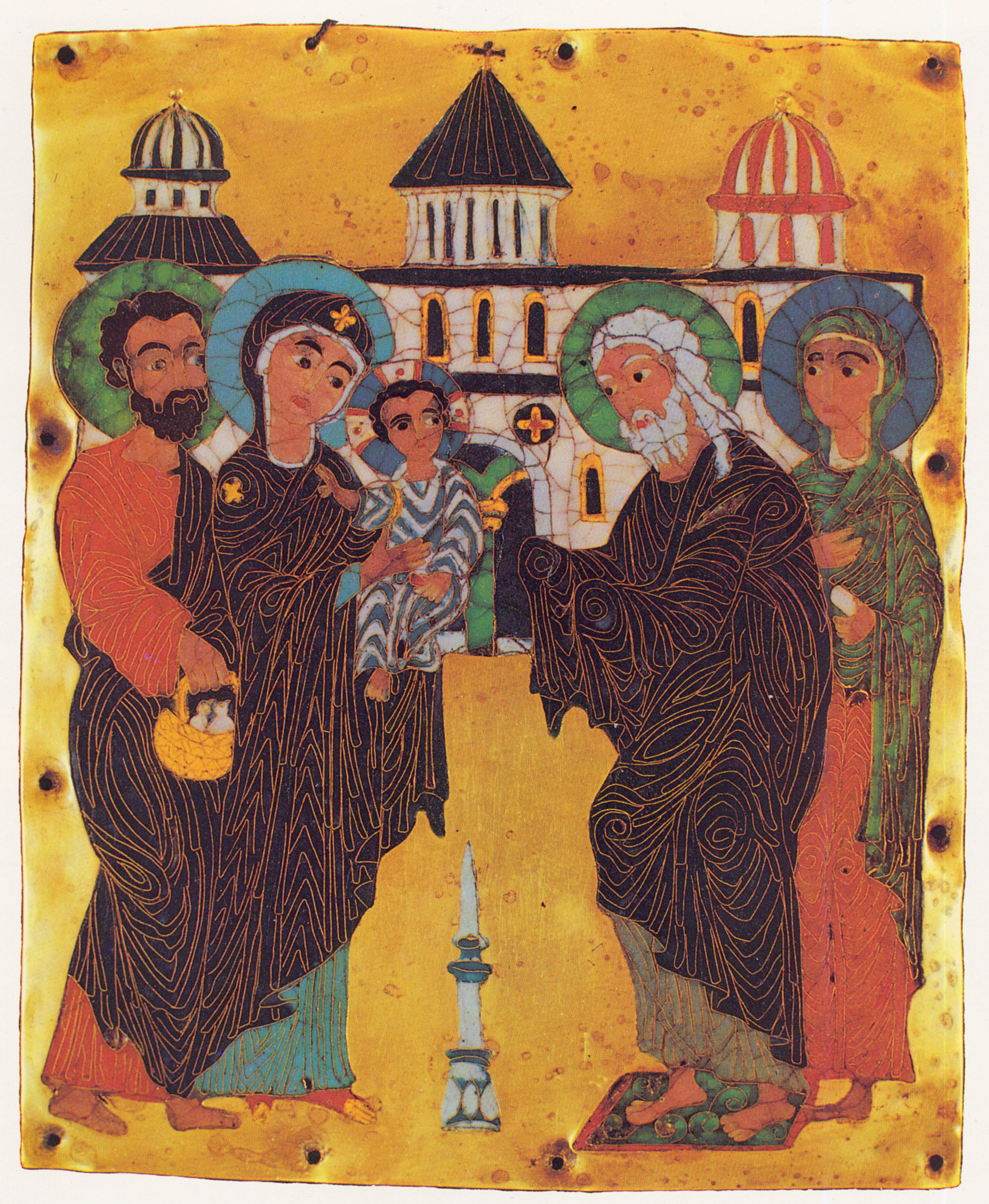 Presentation of Jesus at the Temple. A cloisonné enamel work from Georgia. 12X10 cm. Now on display at the Museum of Fine Arts in Tbilisi, Georgia.